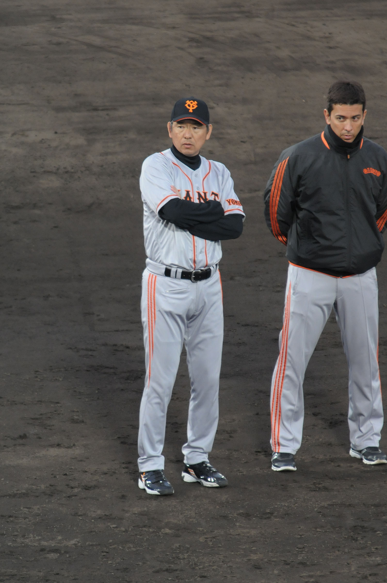 Kazuhisa Kawaguchi, coach of the Yomiuri Giants, at Akita Prefectural Baseball Stadium.